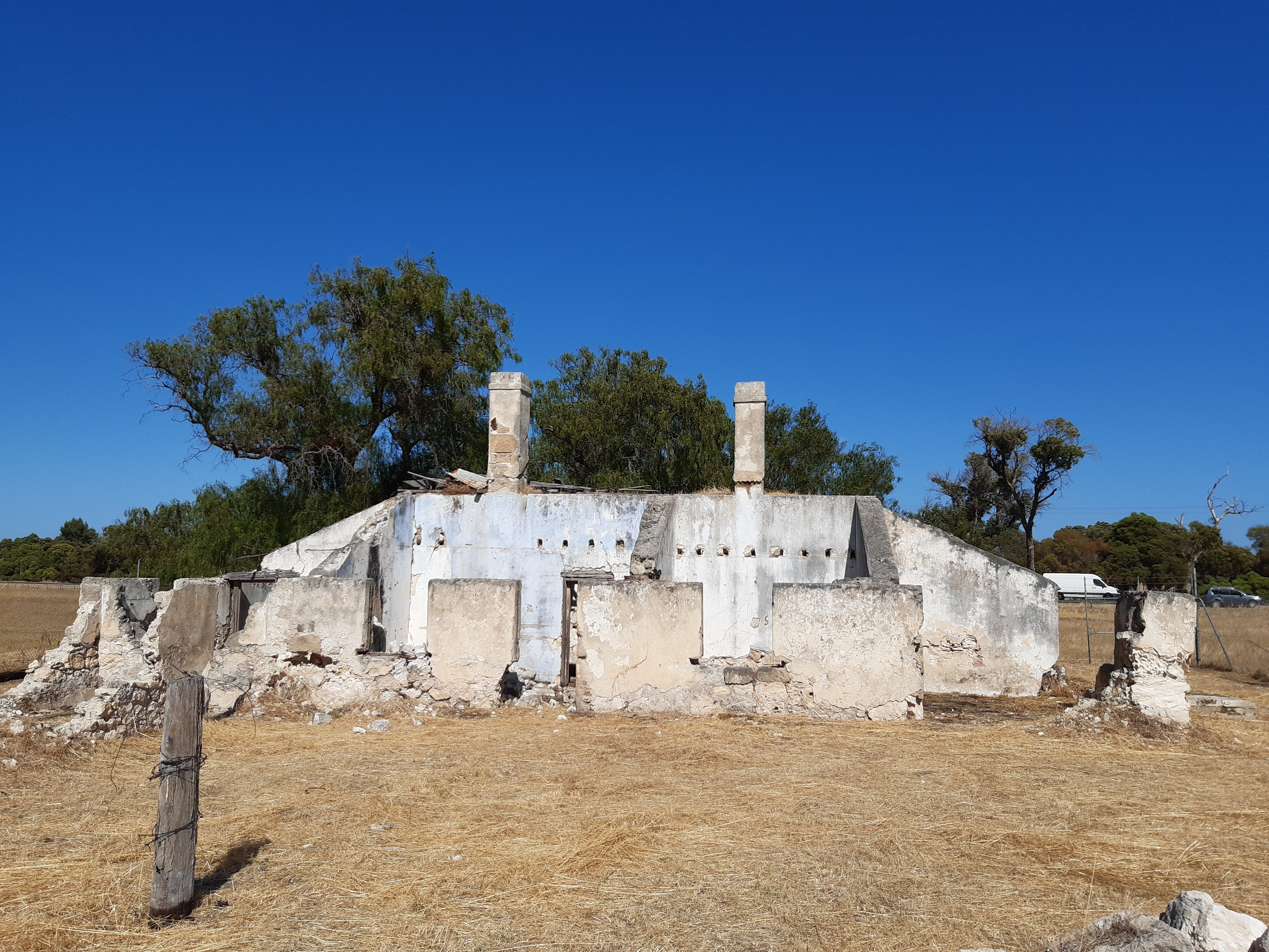 The ruins of Bell Cottage, East Rockingham, Western Australia. The cottage dates back to 1868.